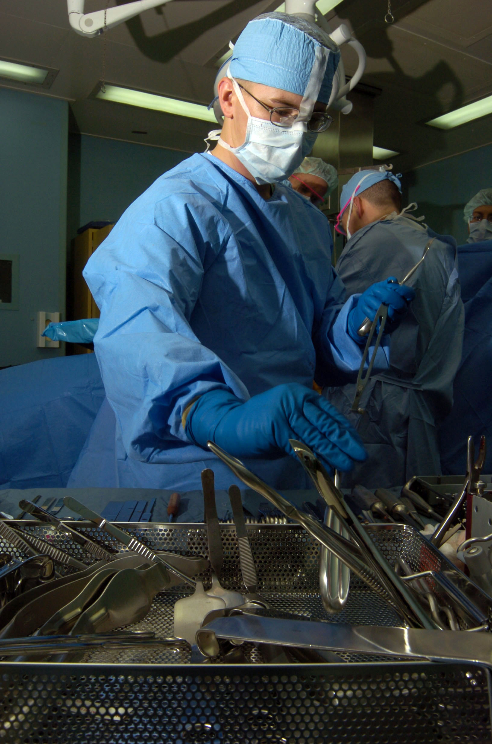 Indian Ocean (Apr. 12, 2005) - Hospitalman Josh Scott of San Jose, Calif., organizes operating tools used by the medical personnel aboard the Military Sealift Command (MSC) hospital ship USNS Mercy (T-AH 19) as they conduct an operation on a local Indonesian woman, while underway in the waters off Indonesia. At the request of the government of Indonesia, Mercy and the MSC combat stores ship USNS Niagara Falls (T-AFS 3) are on station off the coast of Nias, providing assistance as determined appropriate and necessary with earthquake disaster relief efforts and provide medical assistance to those in need. U.S. Navy photo by Photographer's Mate 3rd Class Lamel J. Hinton (RELEASED)